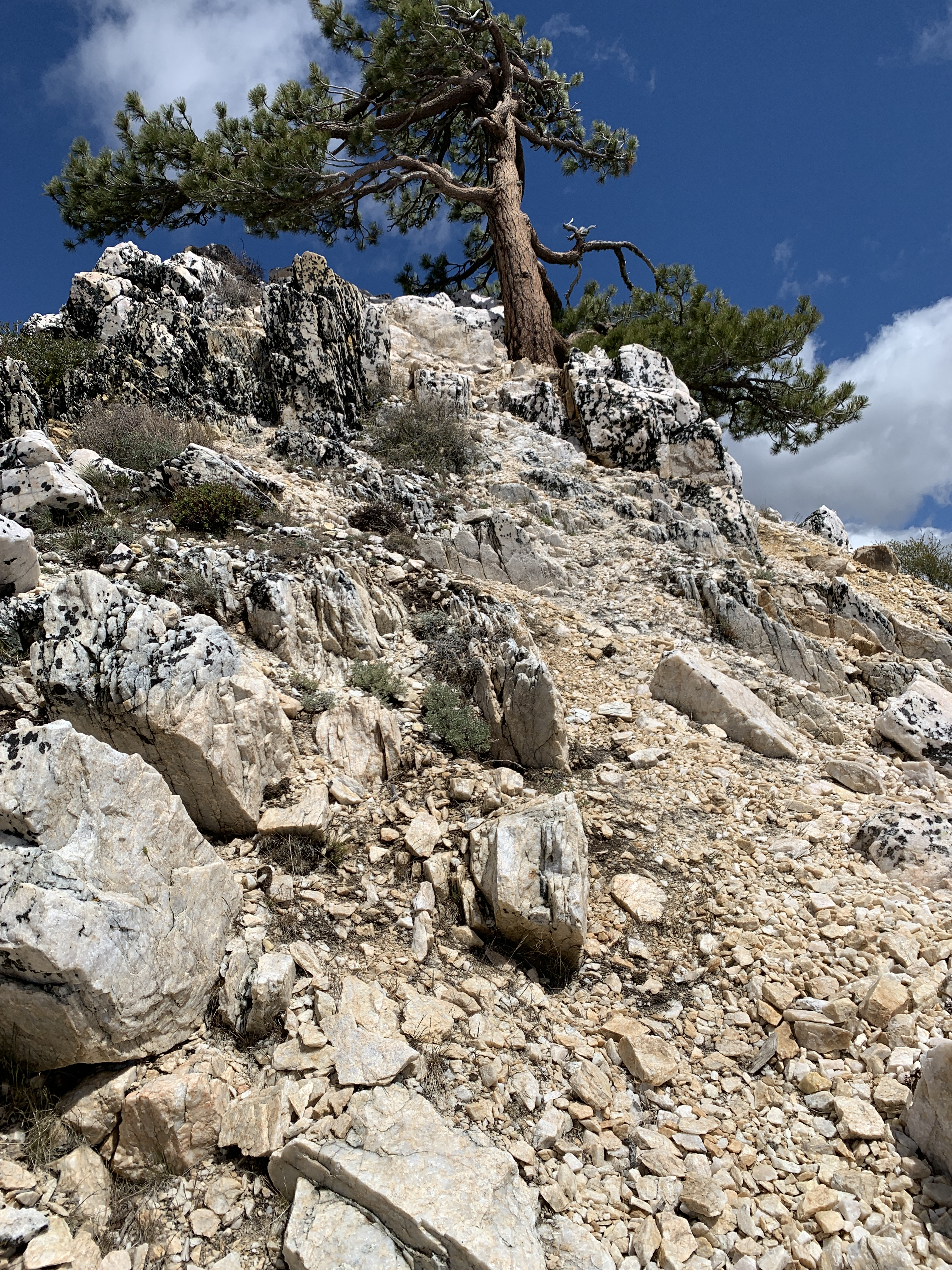 Crystal Peak, Lassen County, California (May 20, 2020)